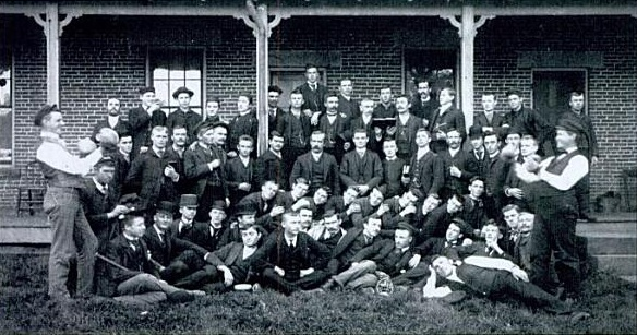 view of a group of German Wallace students in 1892 in front of today's present day Kohler hall. Originally called the German Methodist Orphan Asylum was sold to German Wallace College in 1867